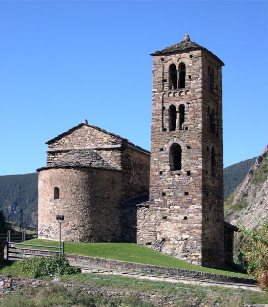 Church of Sant Joan de Caselles, Canillo, Andorra